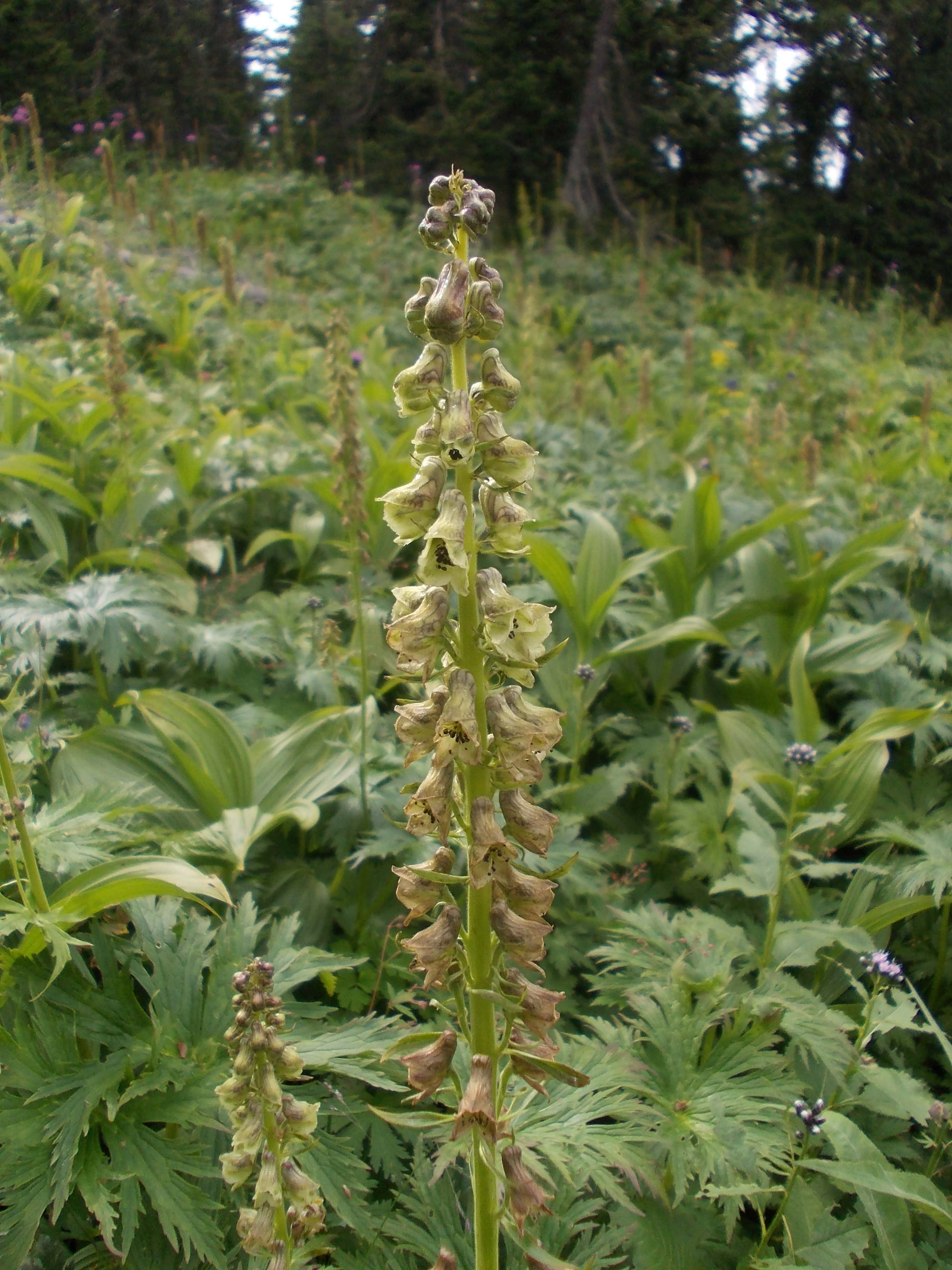 Aconitum sajanense